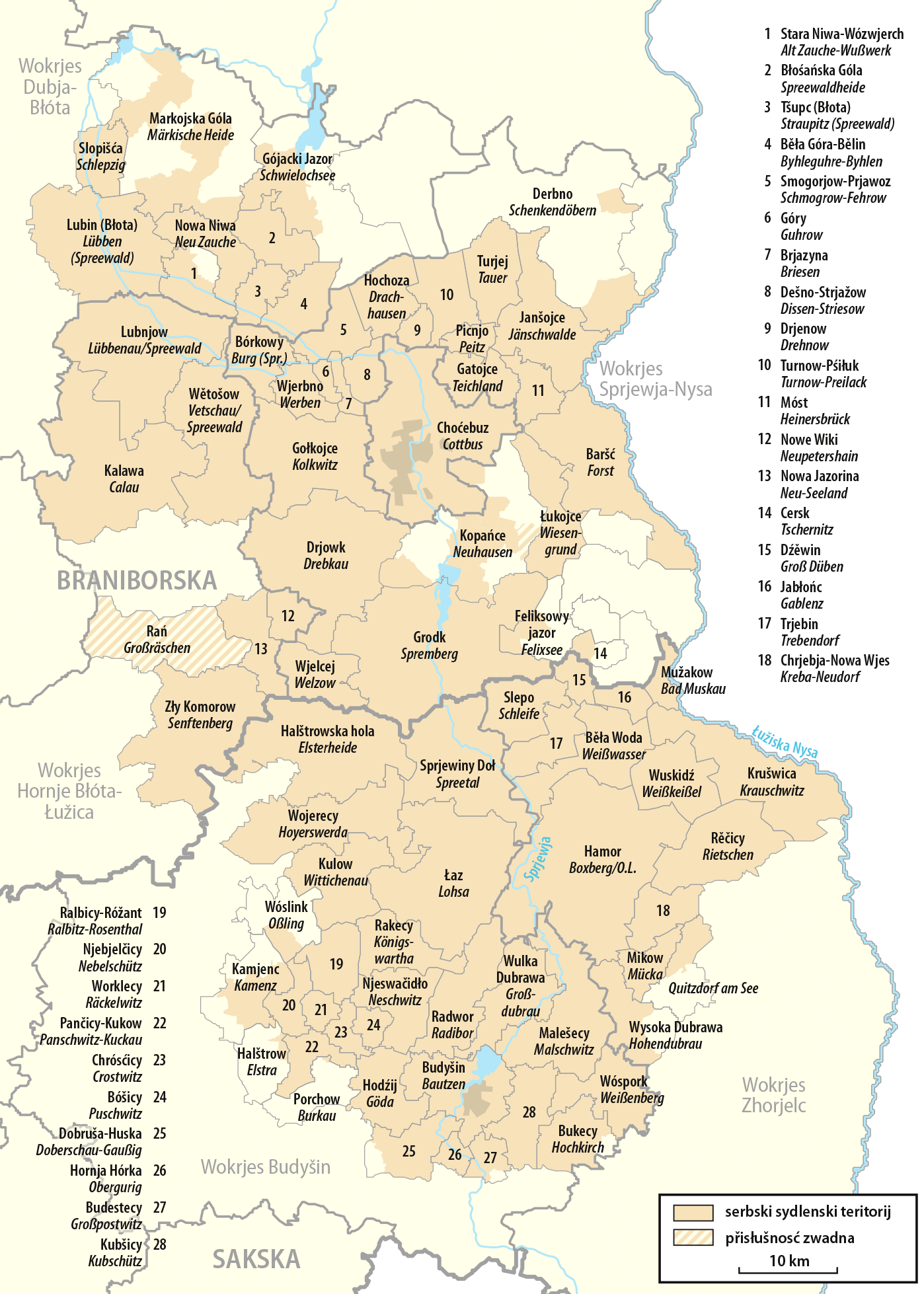 Map of the Sorbian area, Upper Sorbian version Hornjoserbsce: Karta Serbskeho sydlenskeho ruma, hornjoserbska wersija